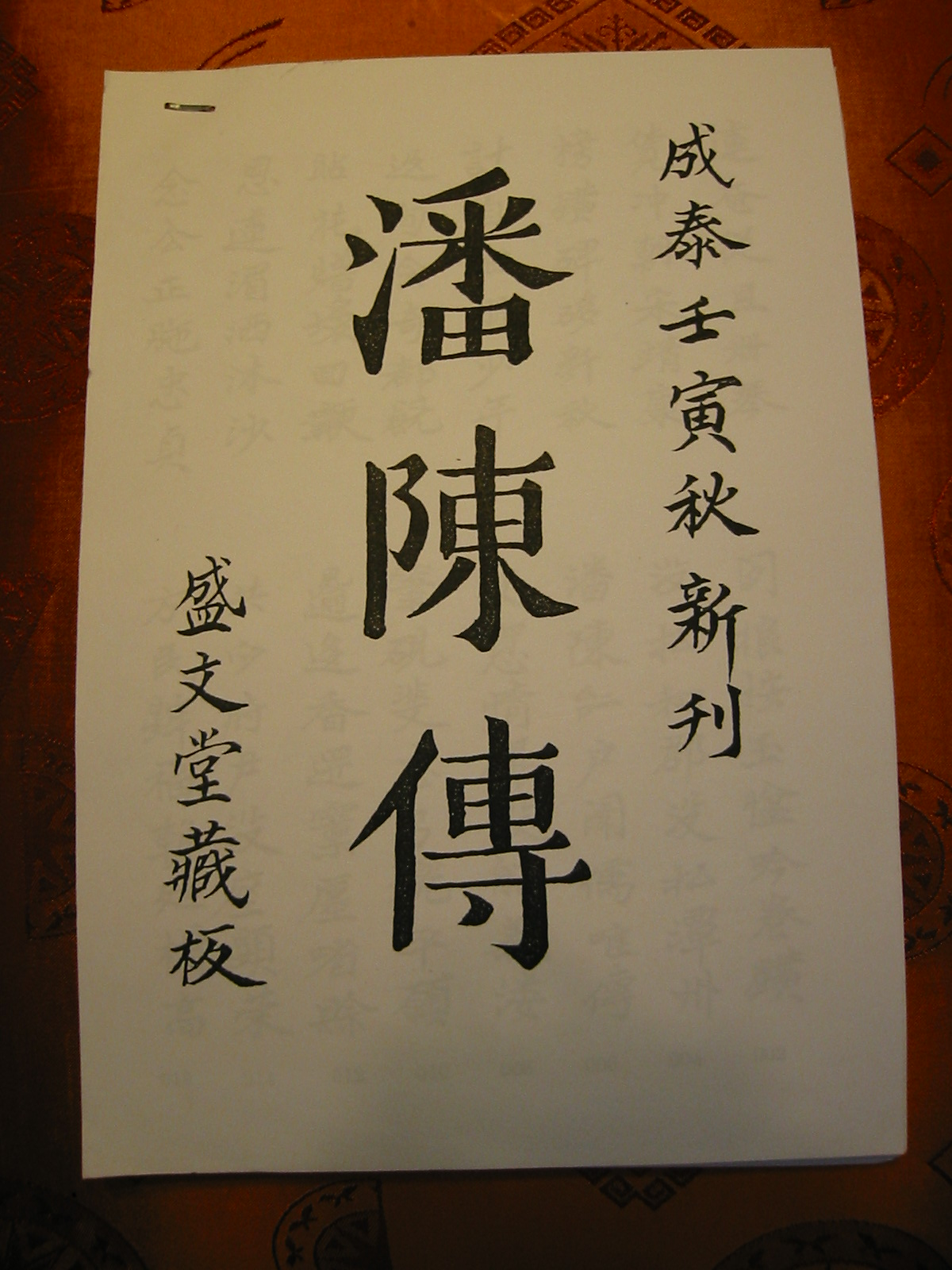 Front cover of Phan Trần Truyện, a story-in-verse in Vietnamese Nôm script